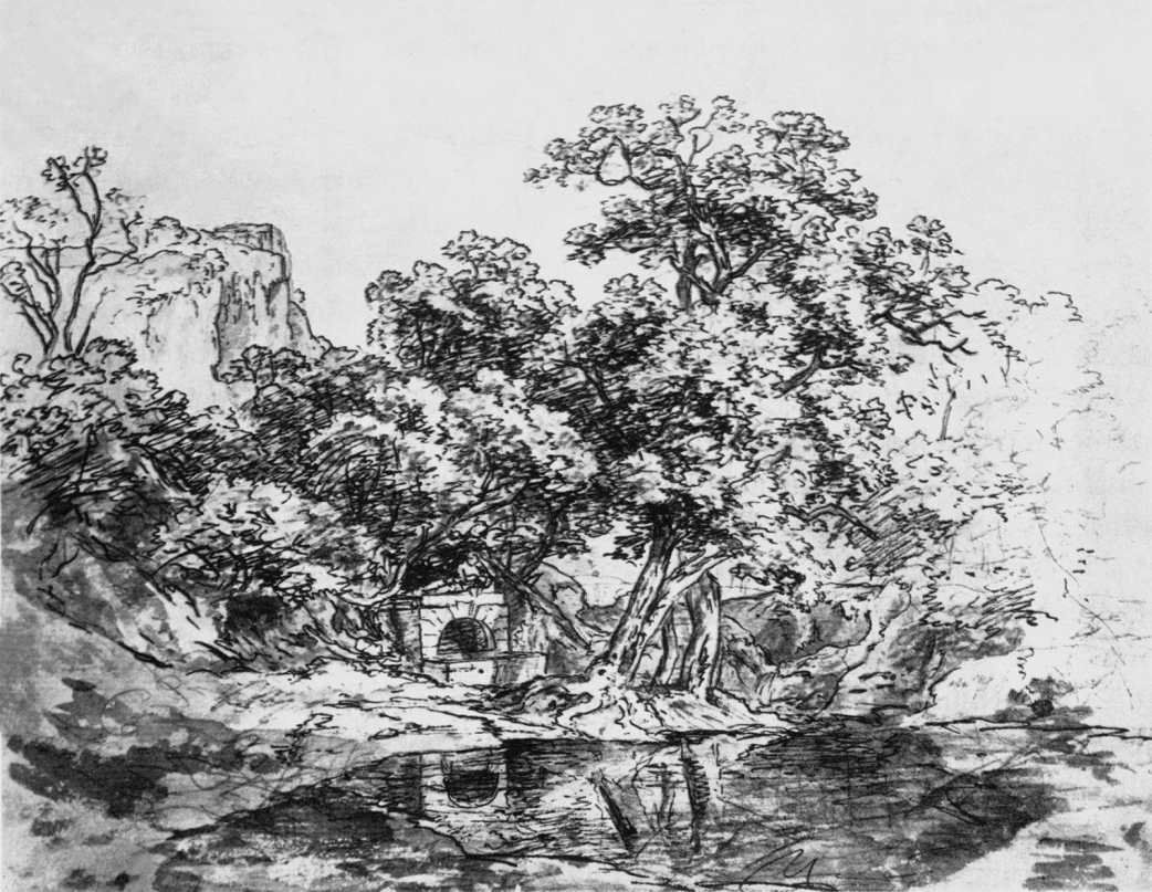 Landscape Sketch with a Lake